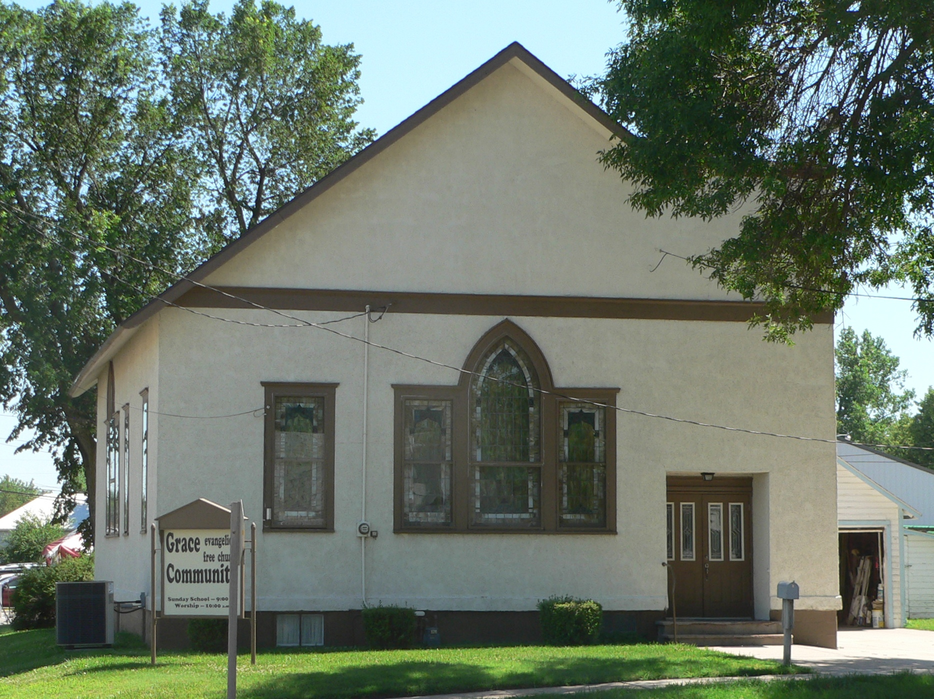 Grace Community Evangelical Free Church at southwest corner of 5th and Bloom Streets in Superior, Nebraska; seen from the north.